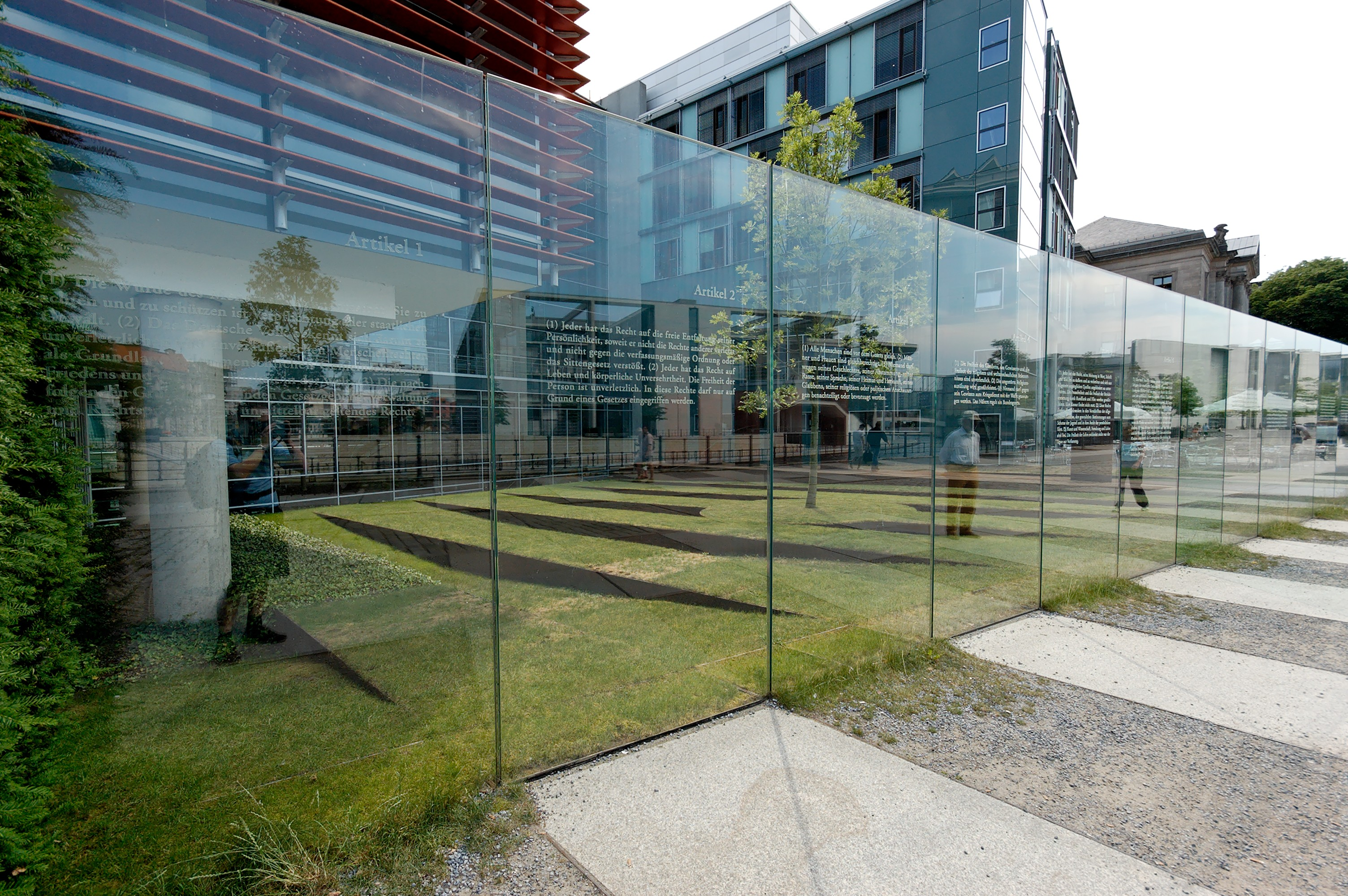 The articles of the German Constitution (Grundgesetz)